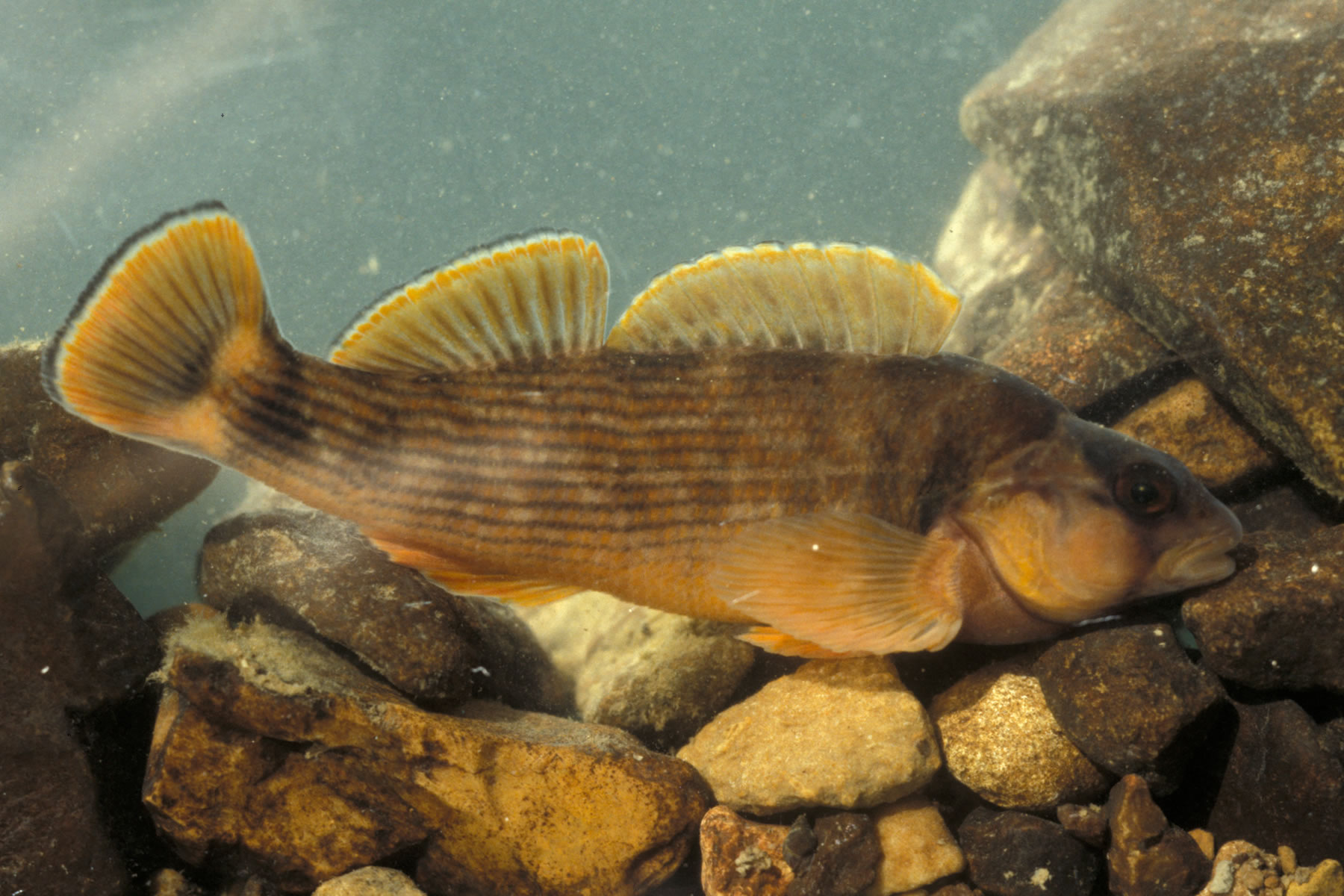 Etheostoma bellum USFWS photo